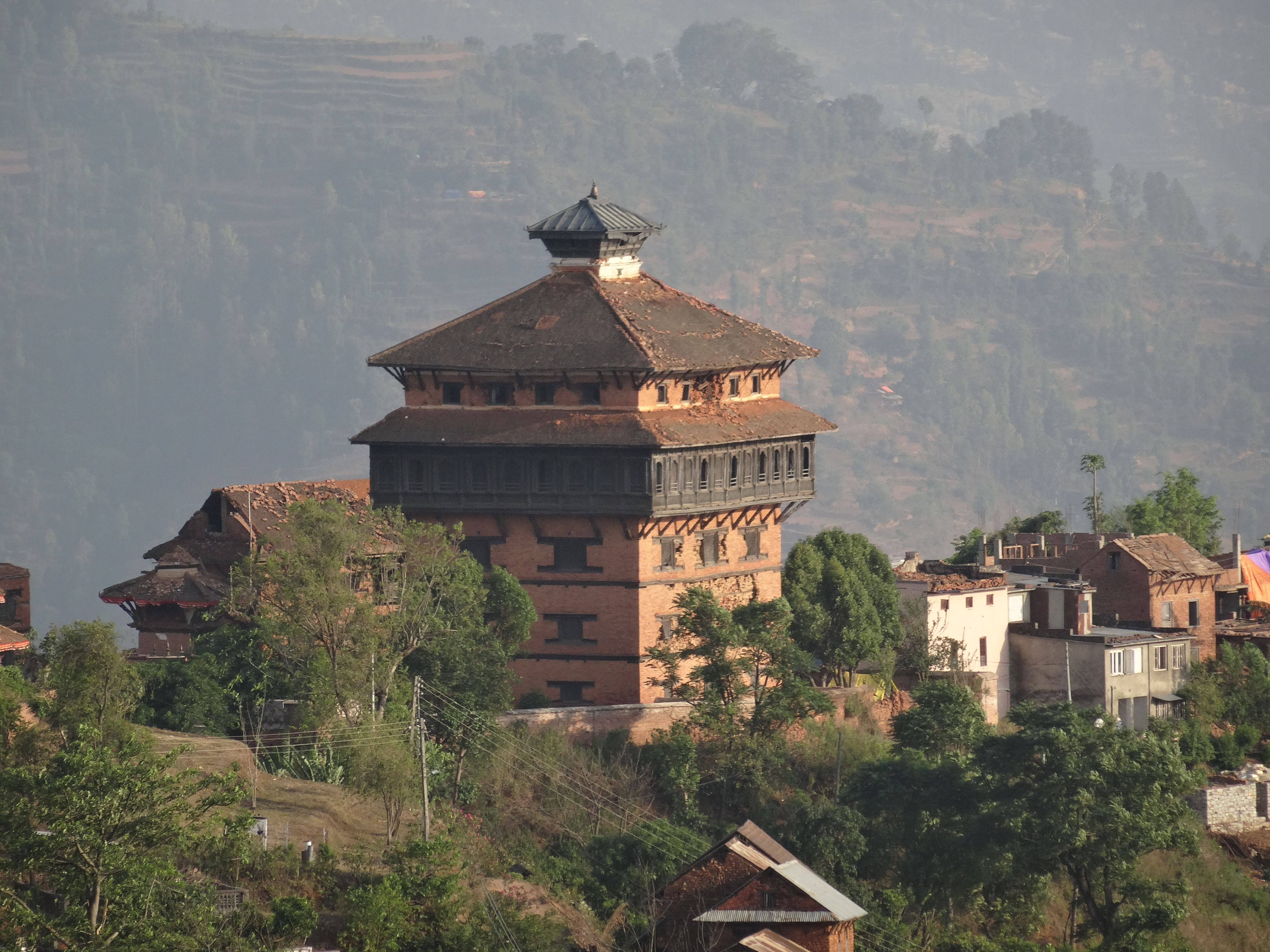 Nuwakot Palace after 2015 earthquake